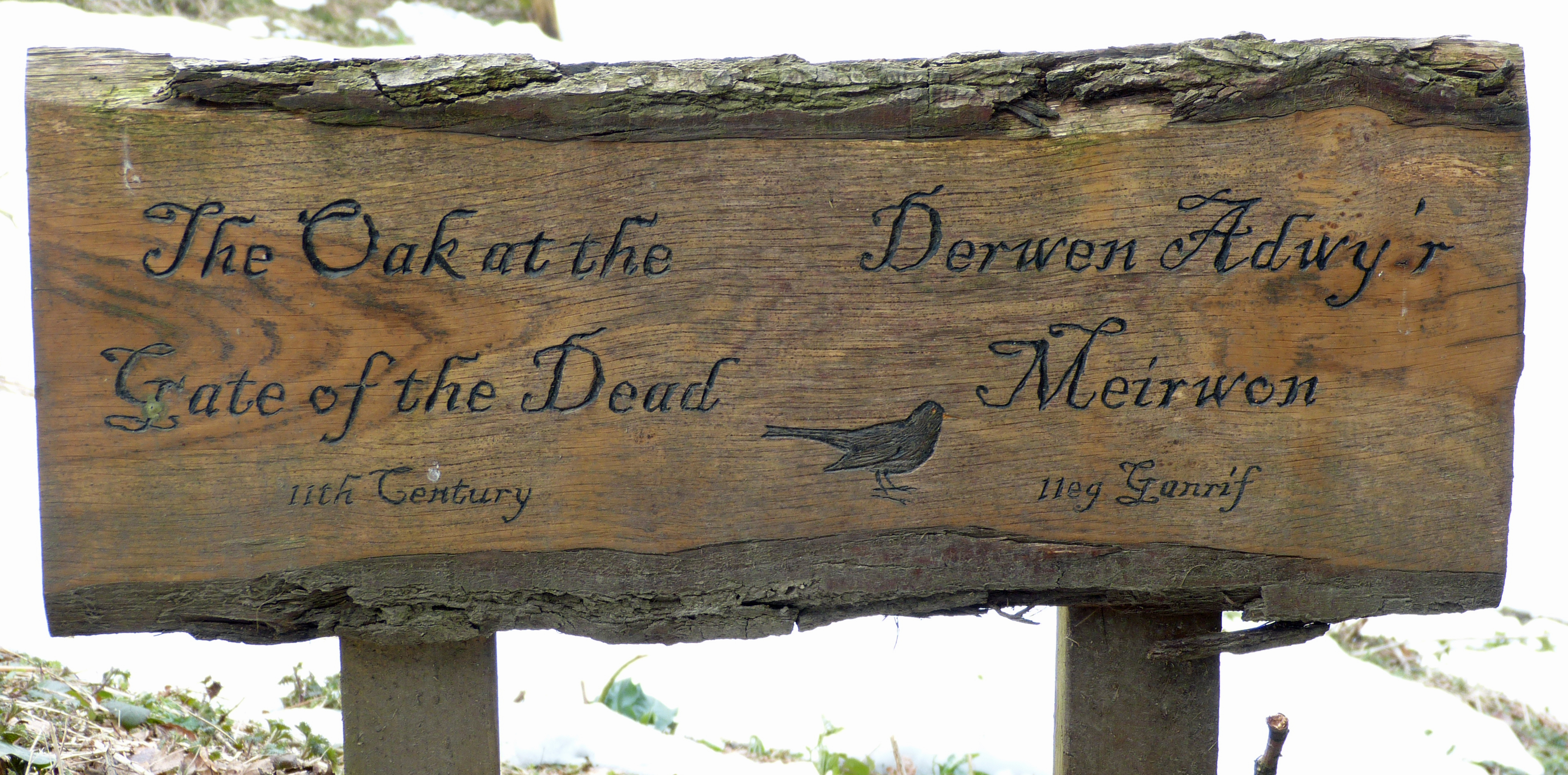 Oak at the Gate of the Dead Chirk, sign